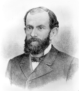 Photo from Colorado State Archives, No copyright claimed by the Archives